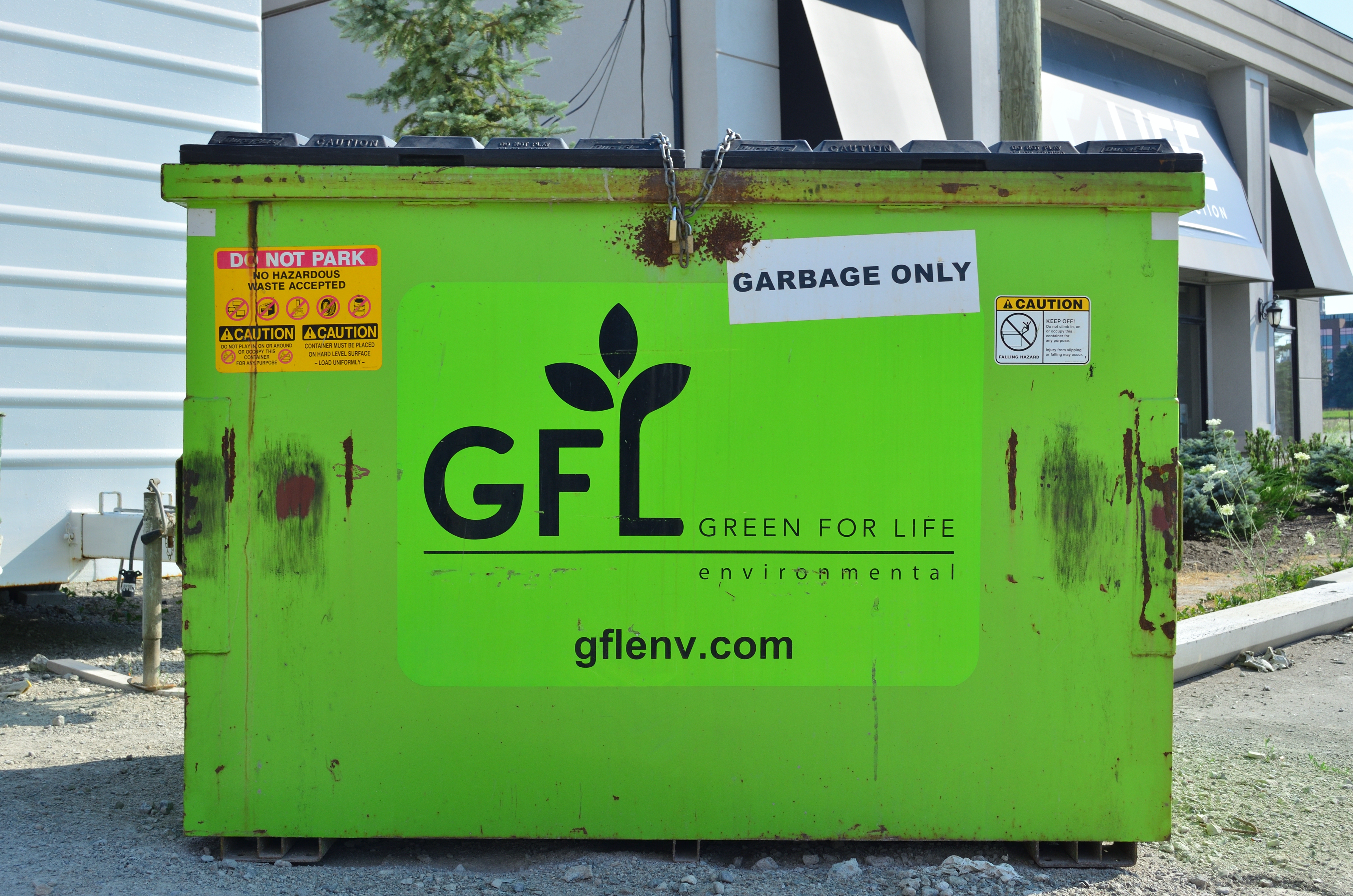 GFL garbage bin